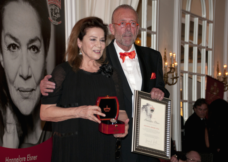 Hannelore Elsner & Leonhard R. Müller - 9.02.2016 - Berlin - 9th edition of Askania Award